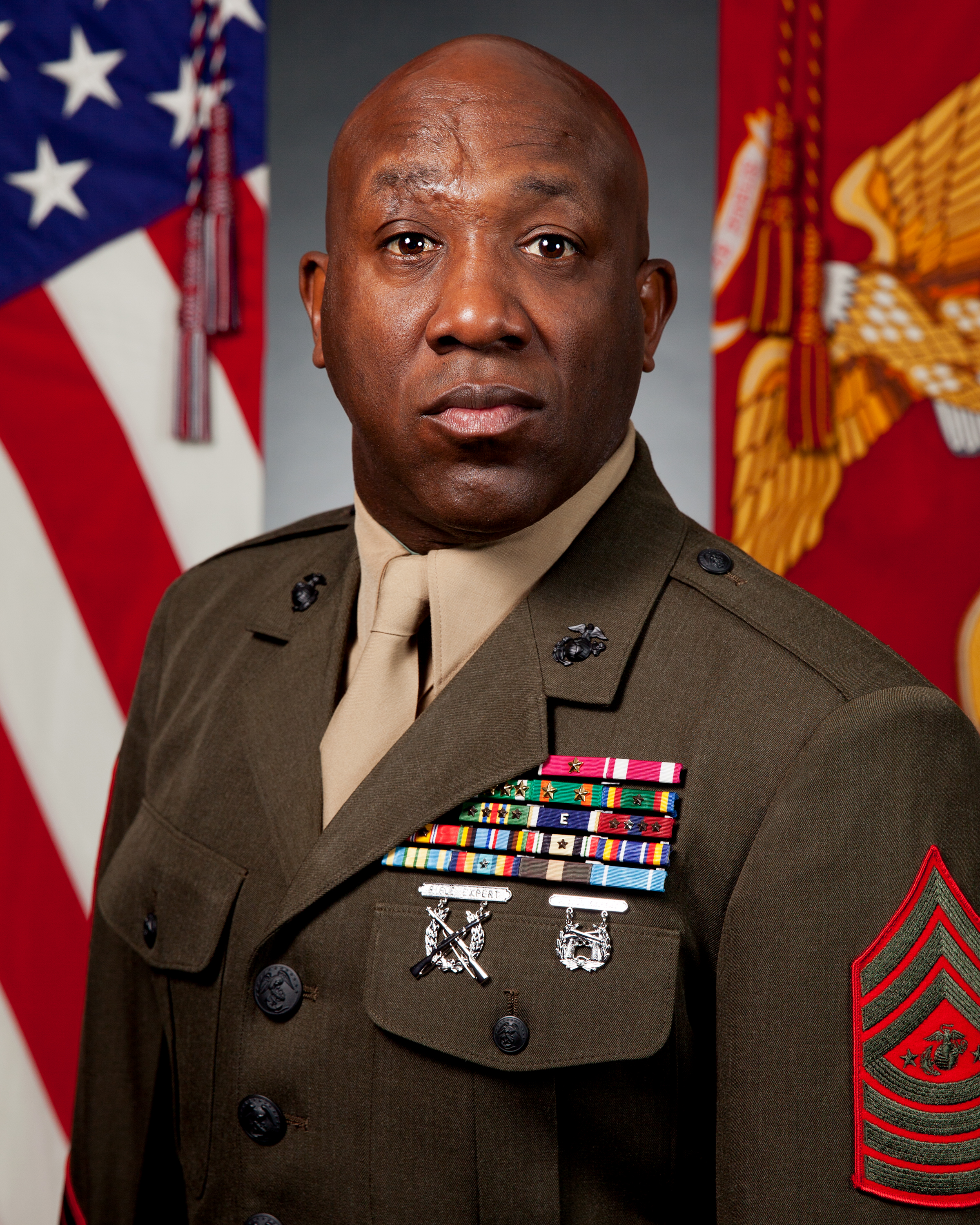 U.S. Marine Corps Sgt. Maj. Ronald L. Green poses for his official portrait as Sgt. Maj. of the Marine Corps at the Pentagon, Arlington Va., Jan. 26, 2015. (U.S. Marine Corps photo by Cpl. Michael C. Guinto/Released)